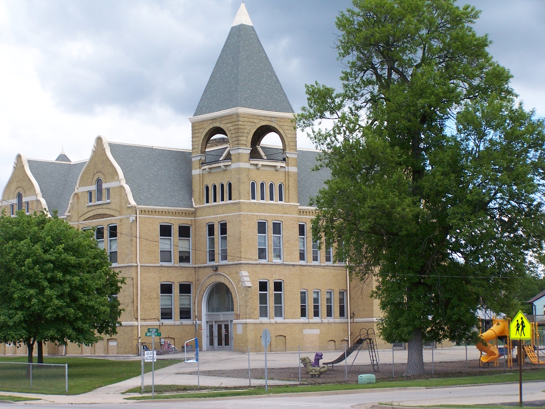 Central School, located in Harvard, Illinois. Viewed from the southwest.